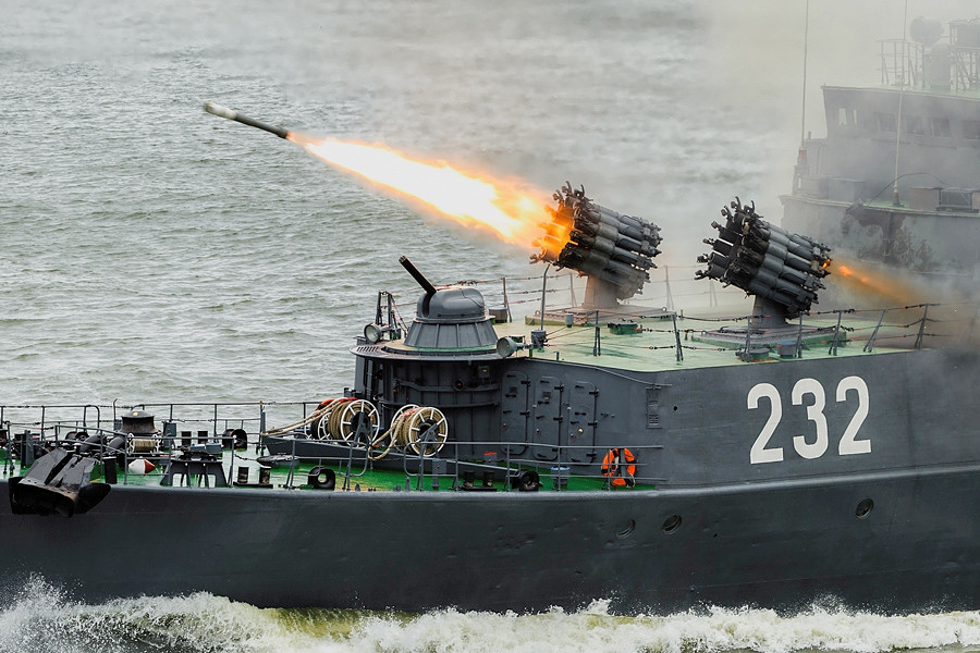 Kalmykiya firing RBU-6000 in Baltiysk.